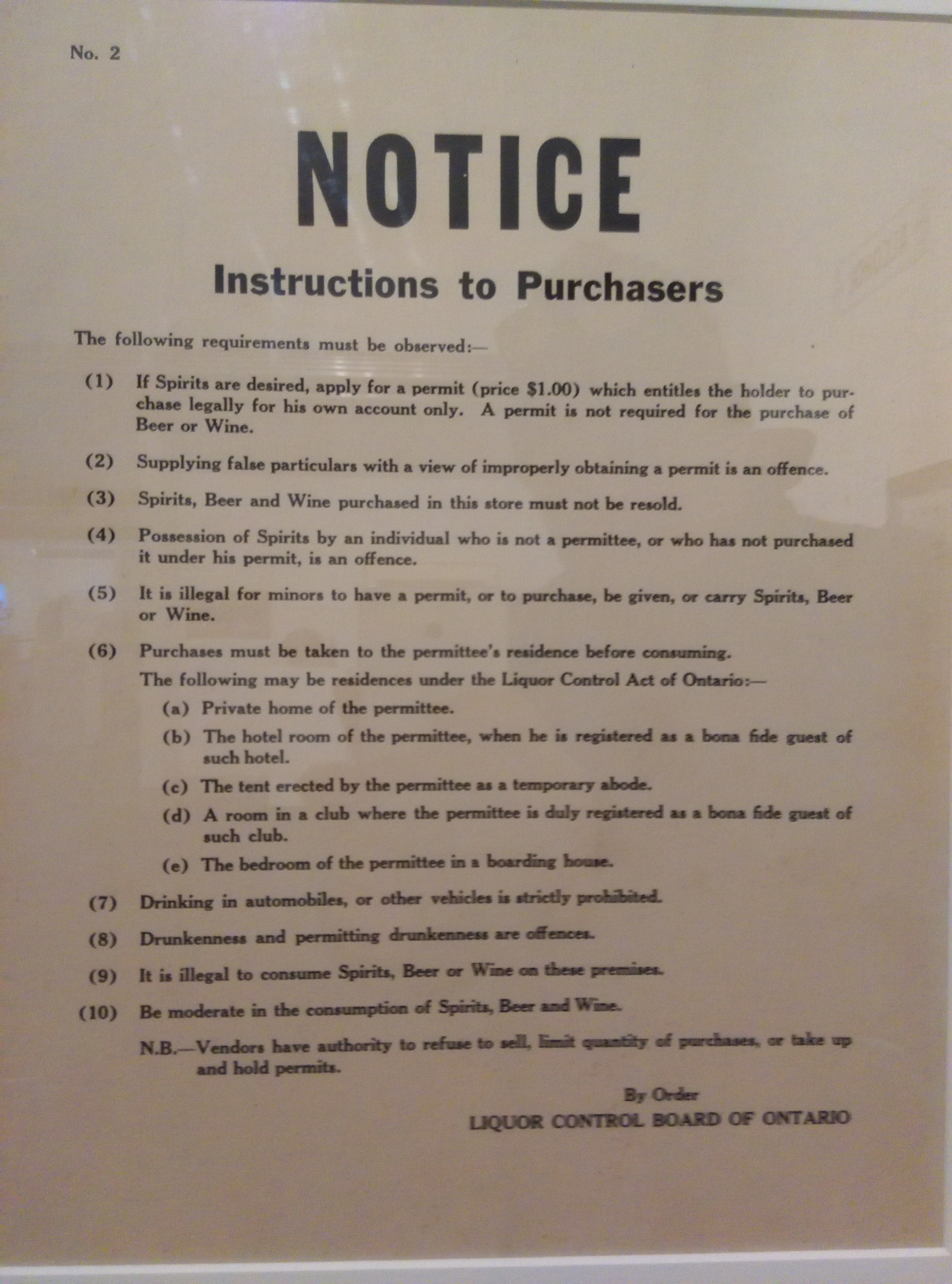 Instructions to Purchasers, Liquor Control Board of Ontario.